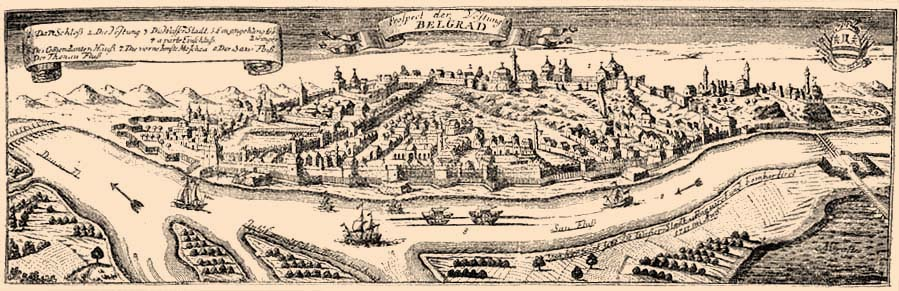 Belgrade in 18th century